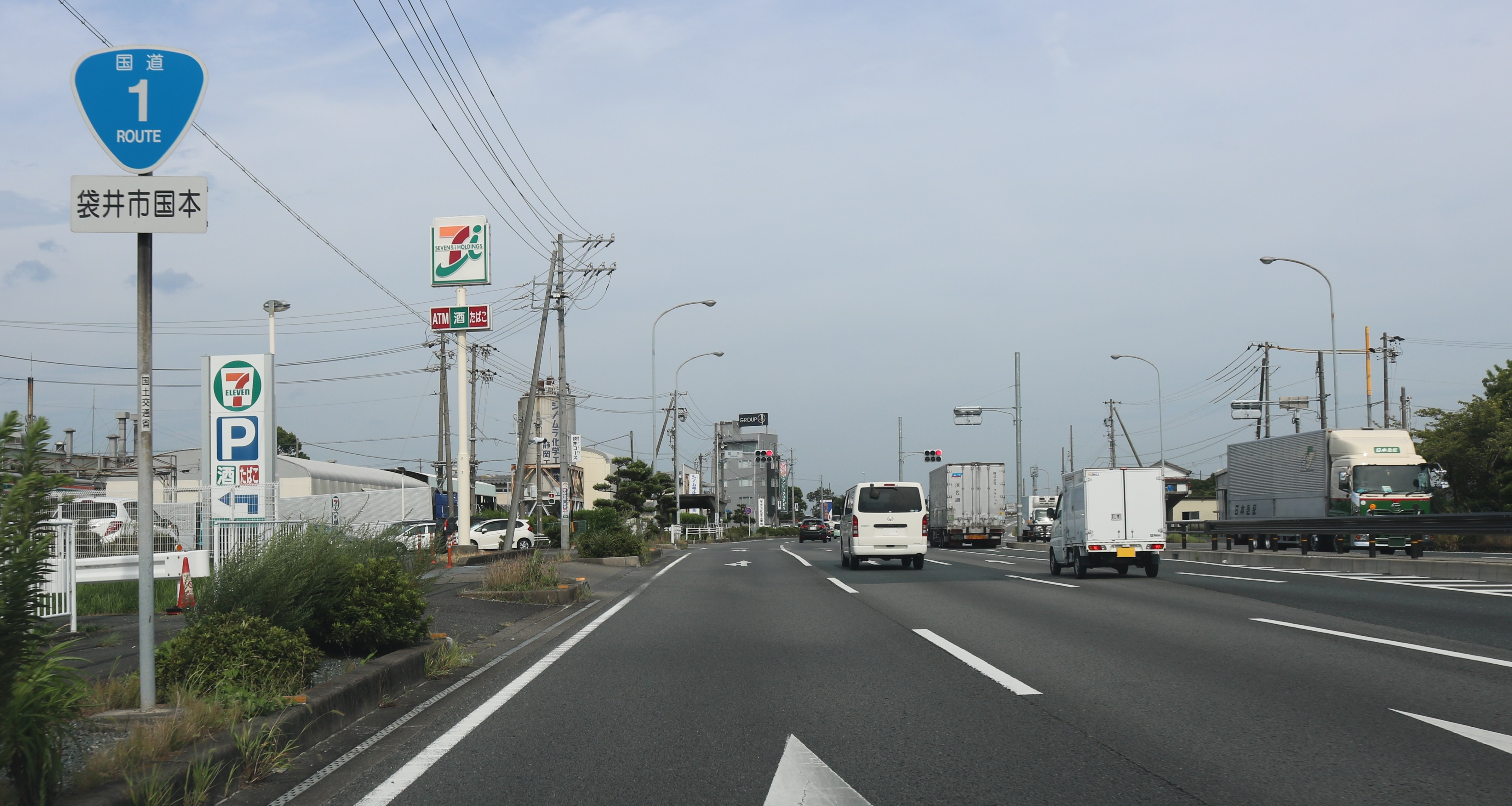 Fukuroi Bypass of Route 1 in Kunimoto, Fukuroi, Shizuoka Prefecture, Japan.